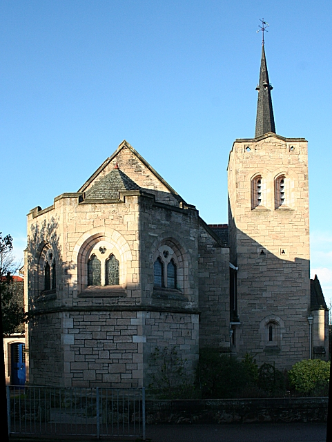 St Stephen's Kirk In the low midday sun of Christmas Day, much of the kirk is in the shade of the buildings across the road.